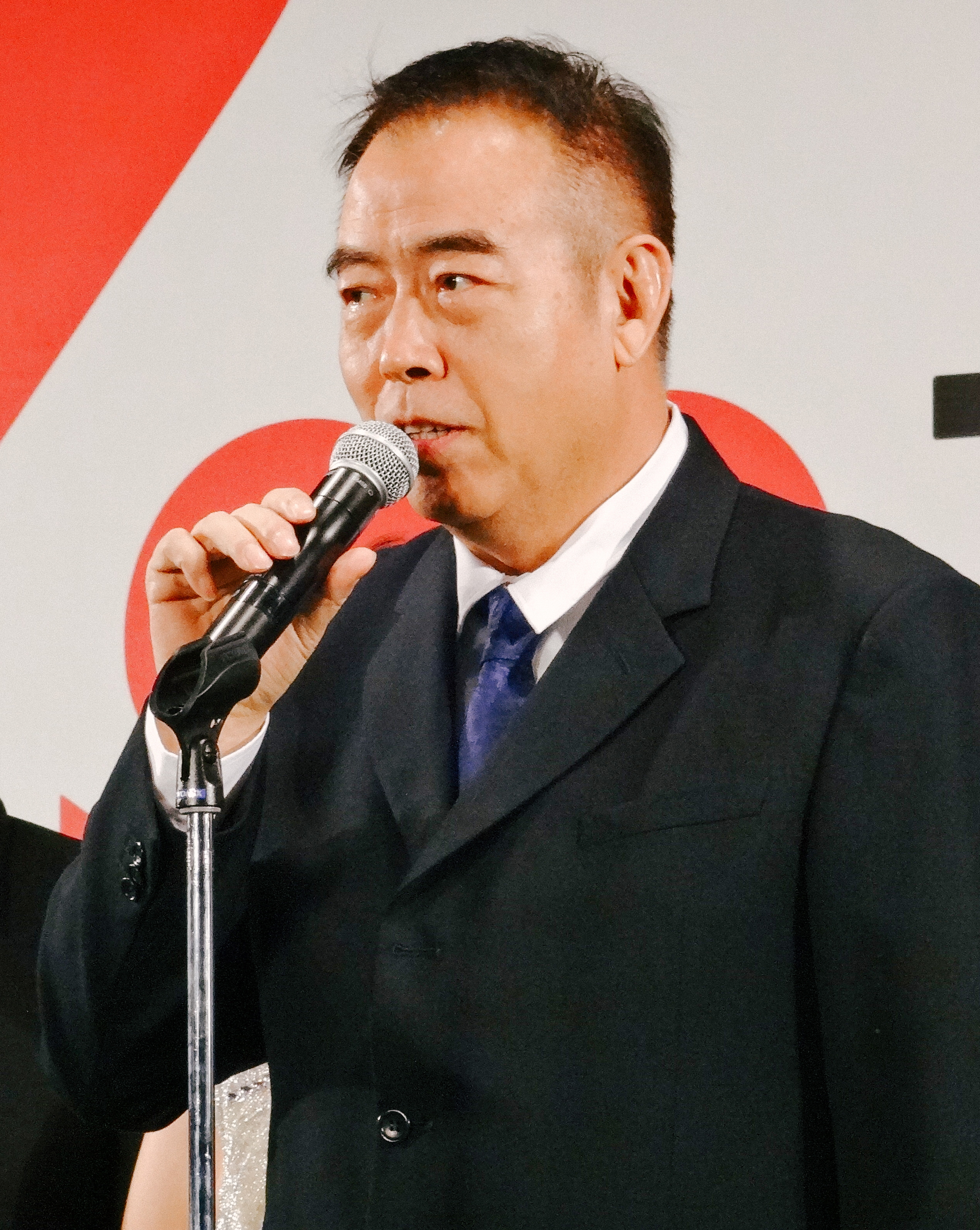 26th Tokyo International Film Festival: Chen Kaige 第26回 東京国際映画祭 チェン・カイコー